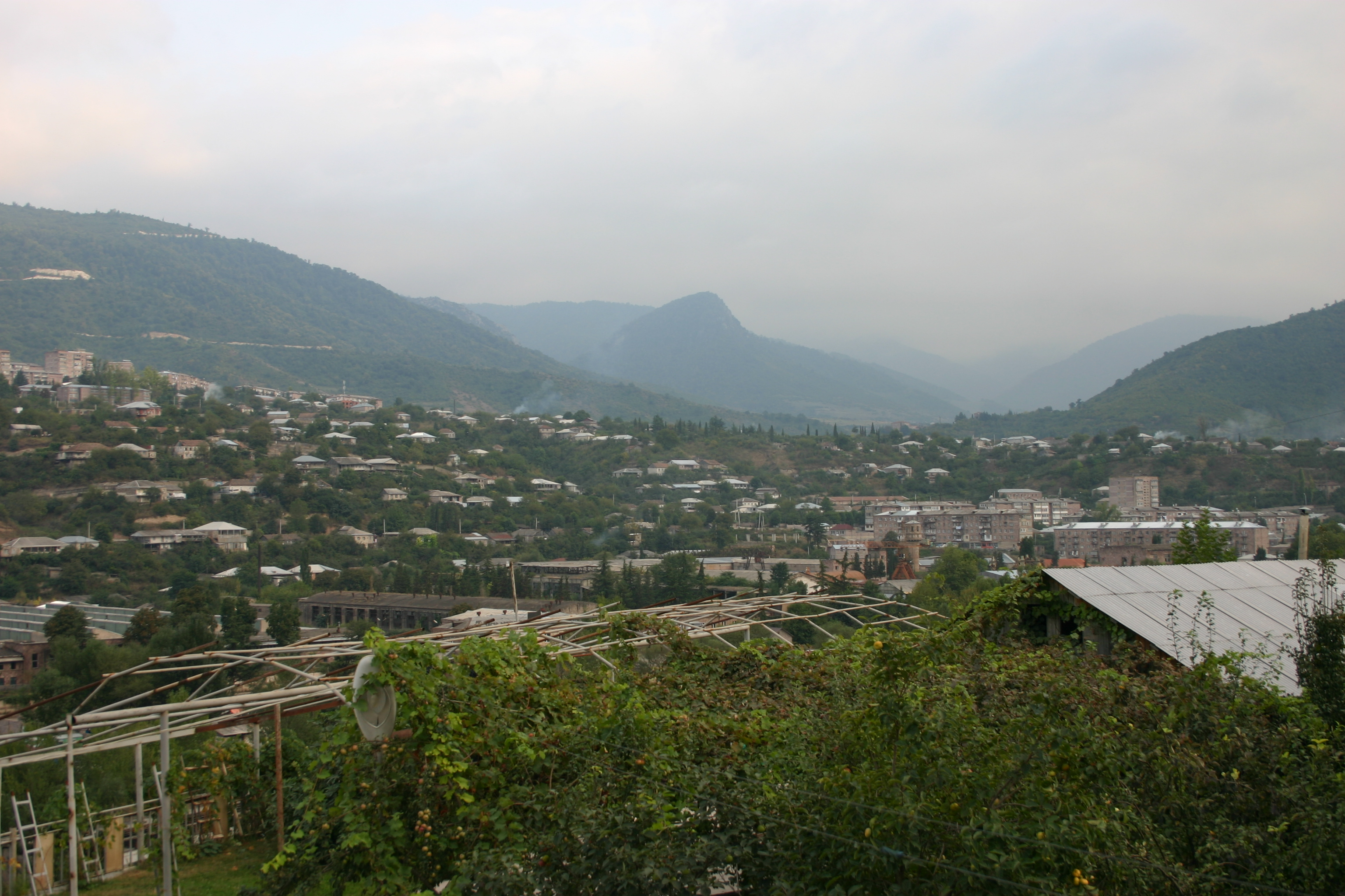 Ijevan, Armenia.